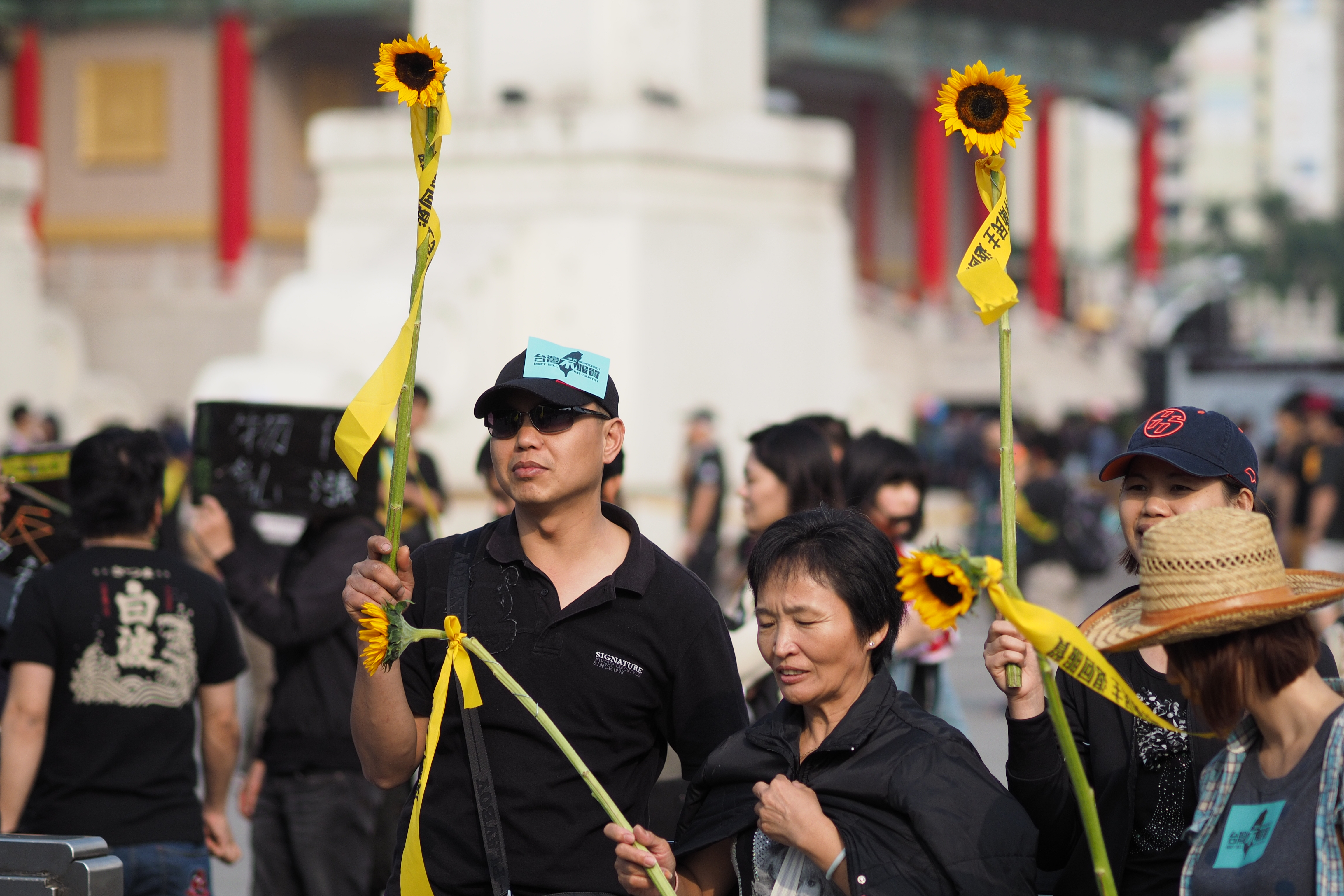 CongressOccupied #佔領立法院 #太陽花學運 太陽花學運